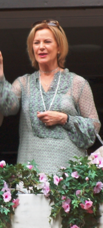 Anni-Frid Lyngstad